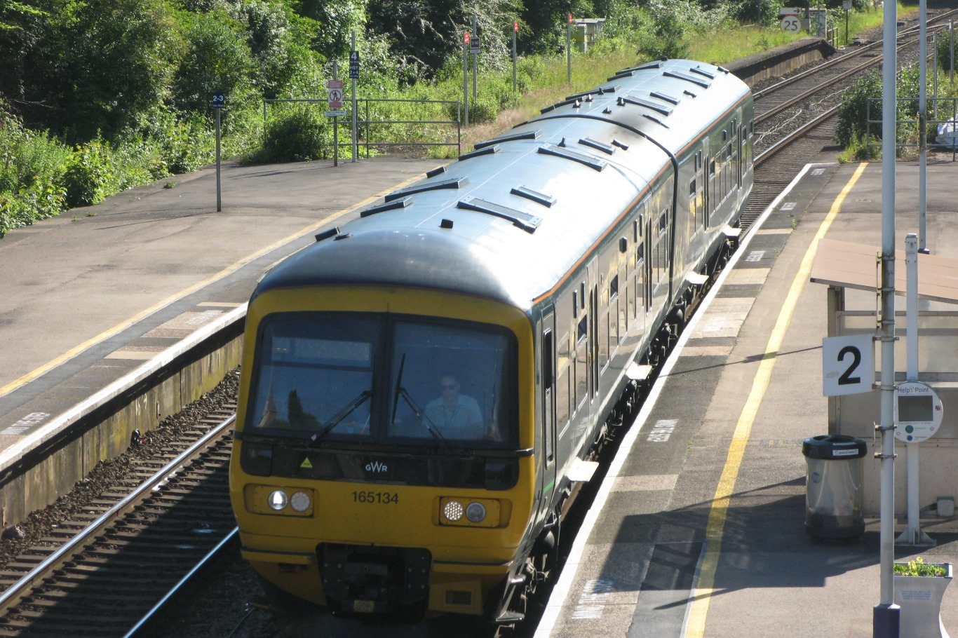 Two-car 'Turbo' 165134 passes through Parson Street station with a Great Western Railway service from Weston-super-Mare to Bristol Parkway.